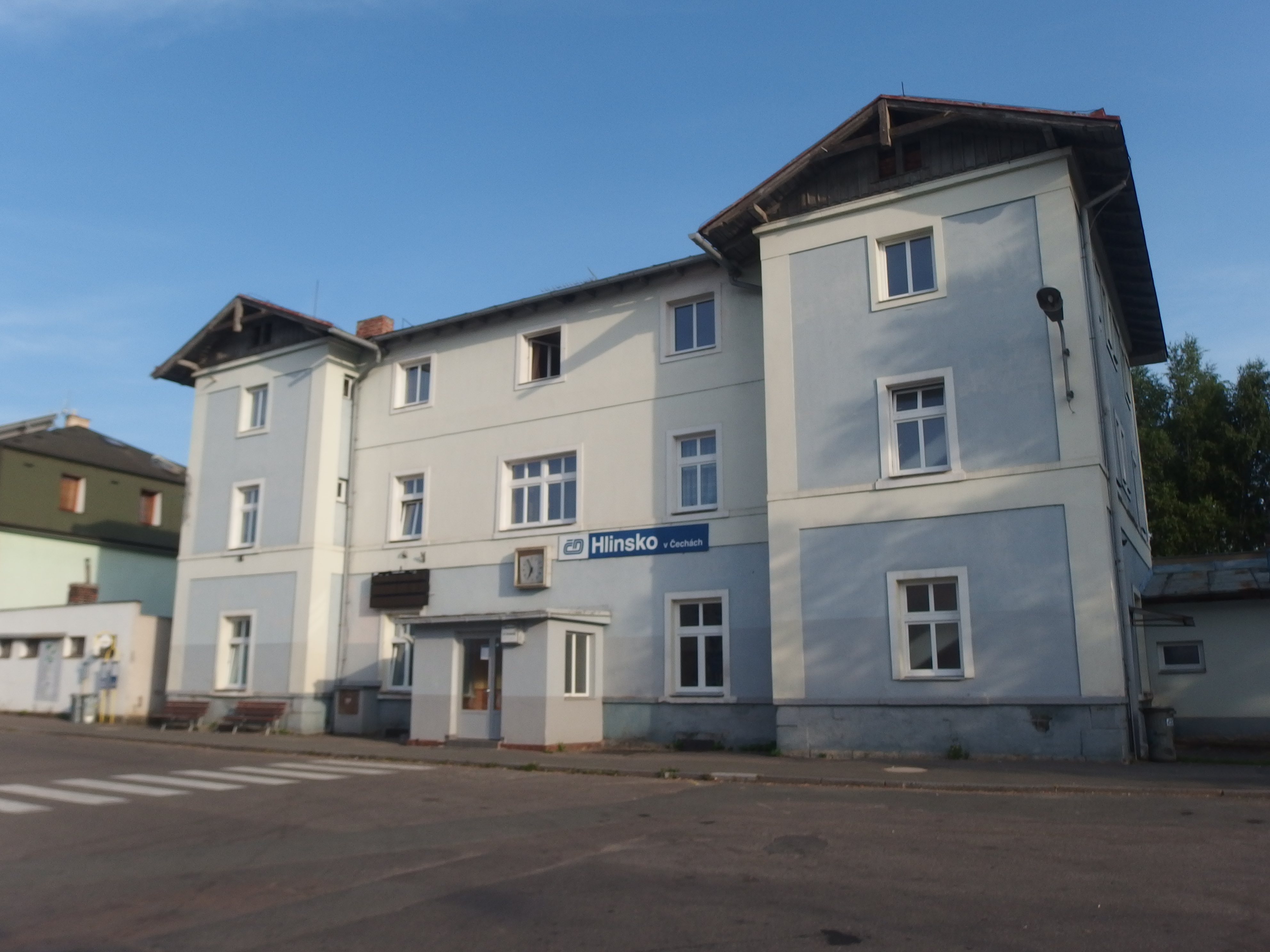 Hlinsko, Chrudim District, Czech Republic.